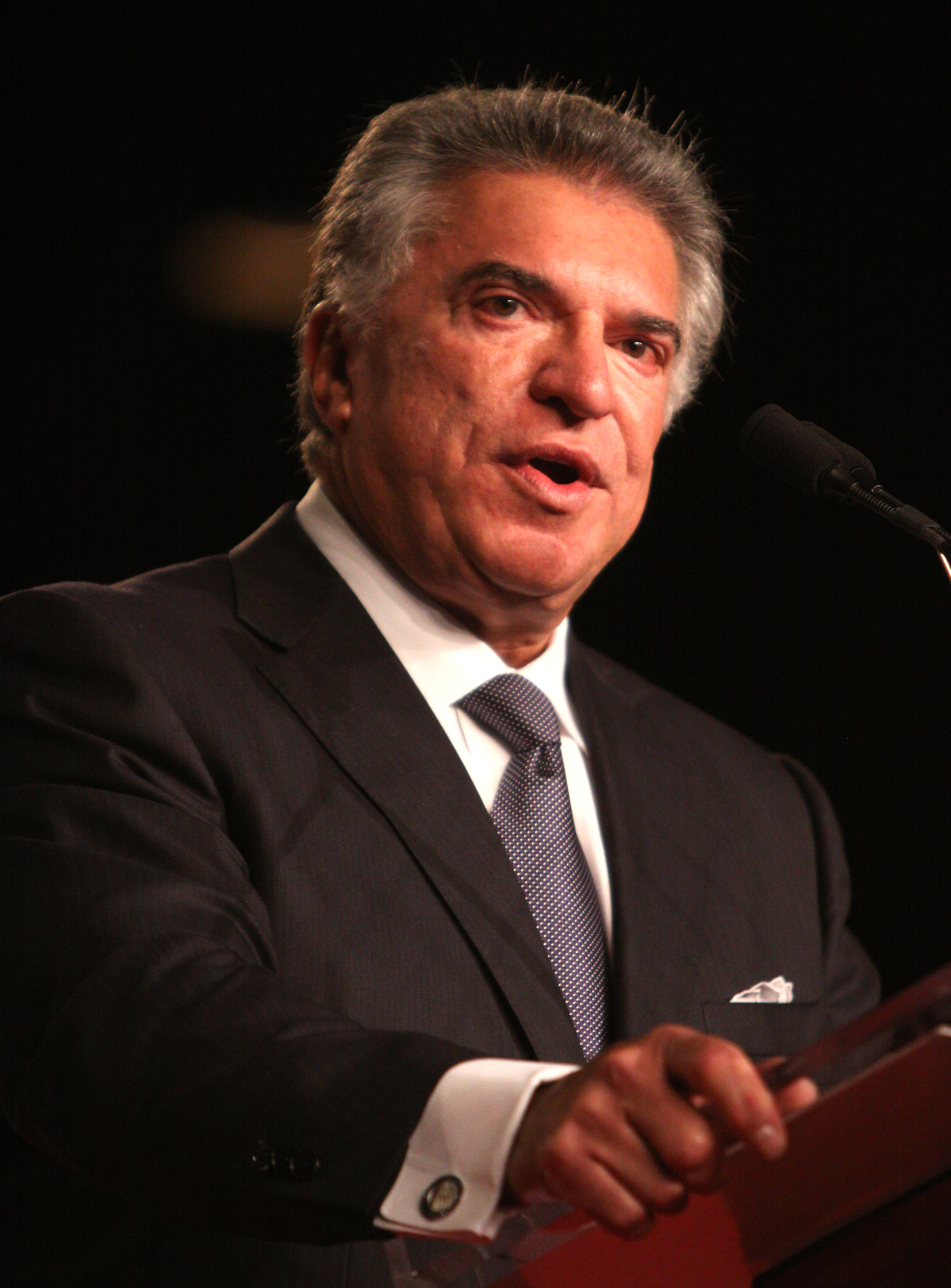 Al Cardenas at a political conference in Orlando, Florida.